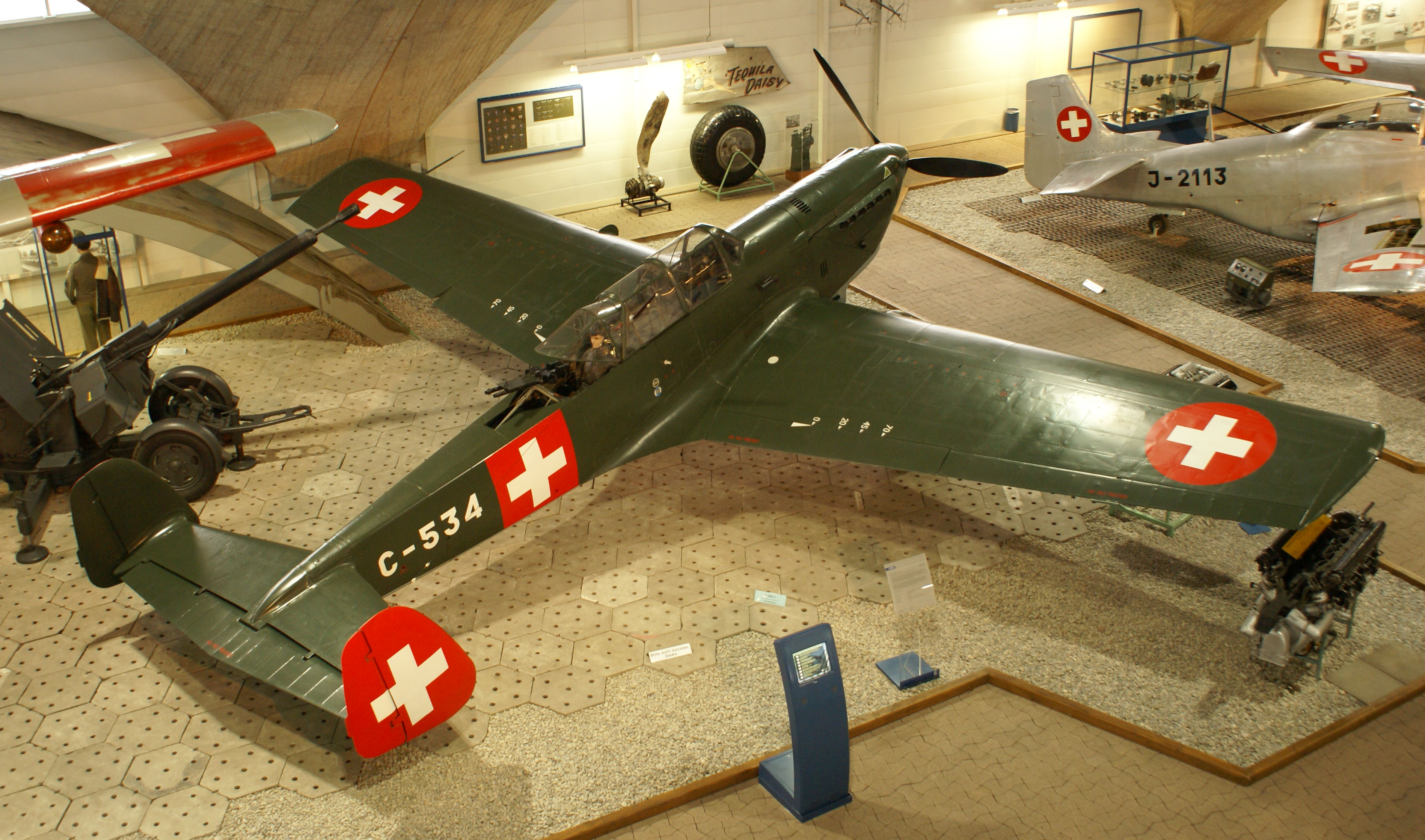 C-3603-1 fighter/reconnaissance aircraft as used by the Swiss Air Force from 1942 to 1952.